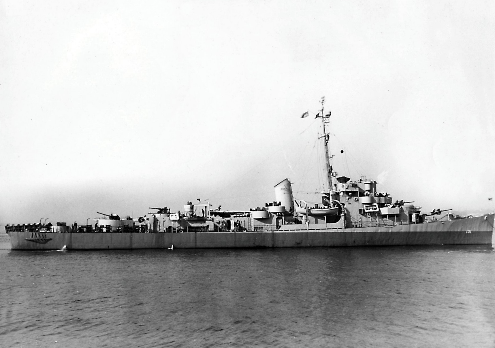 The U.S. Navy destroyer escort USS Hammann (DE-131) off the New York Naval Shipyard (USA) on 21 March 1944.